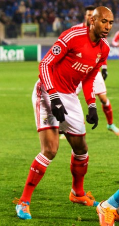 Luisão